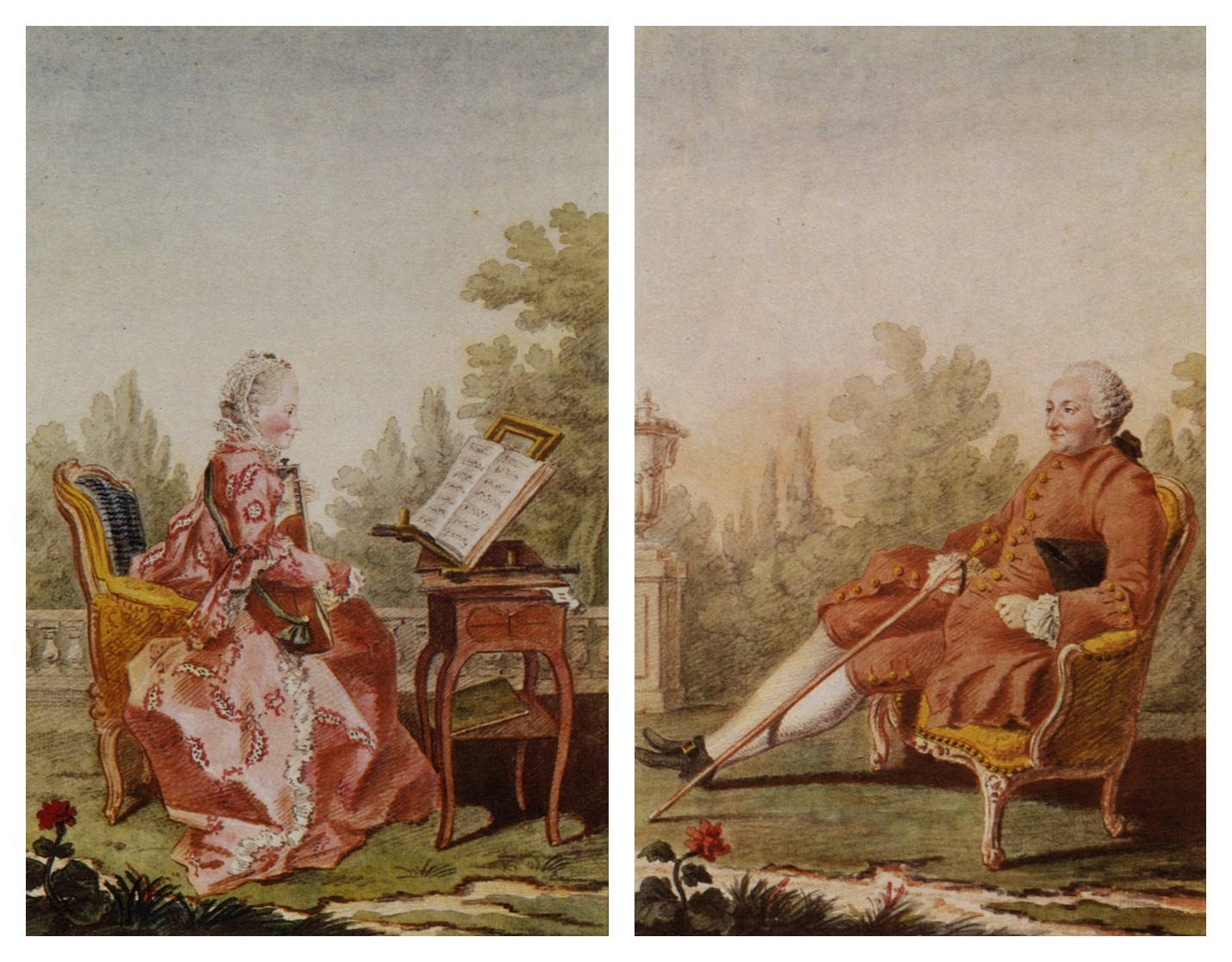 Paul Thiry and Charlotte-Suzanne d'Holbach, by Louis Carmontelle